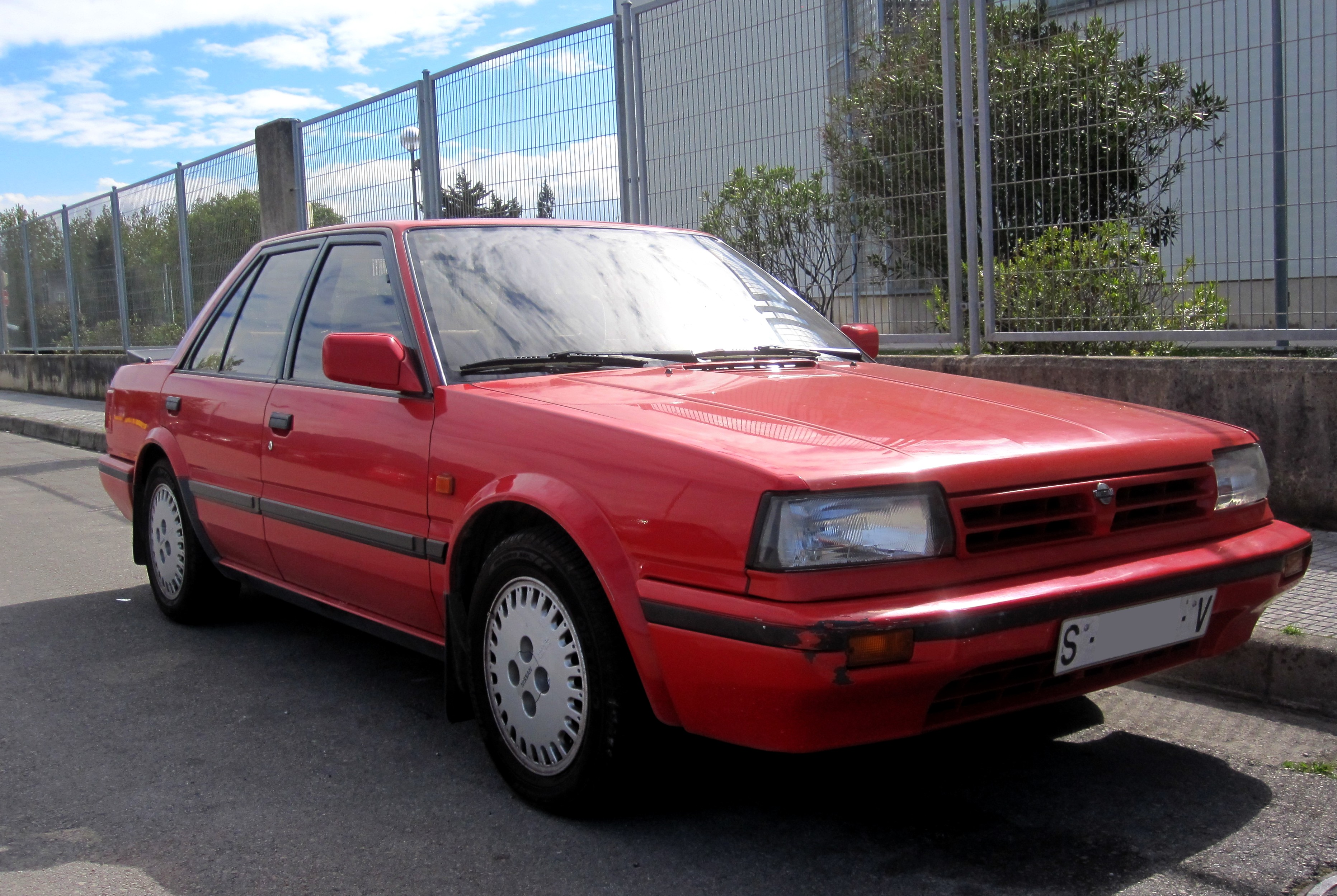 So beautiful! And a GTI, that's not something you see everyday here. I'm not too keen on red for cars but seeing the vast majority of these are always grey I did like this one. These are known for their good reliability so I'm sure the owner of this is quite happy with his nice Japanese machine. It had 1990 plates from Santander (Cantabria), was seen there as well.